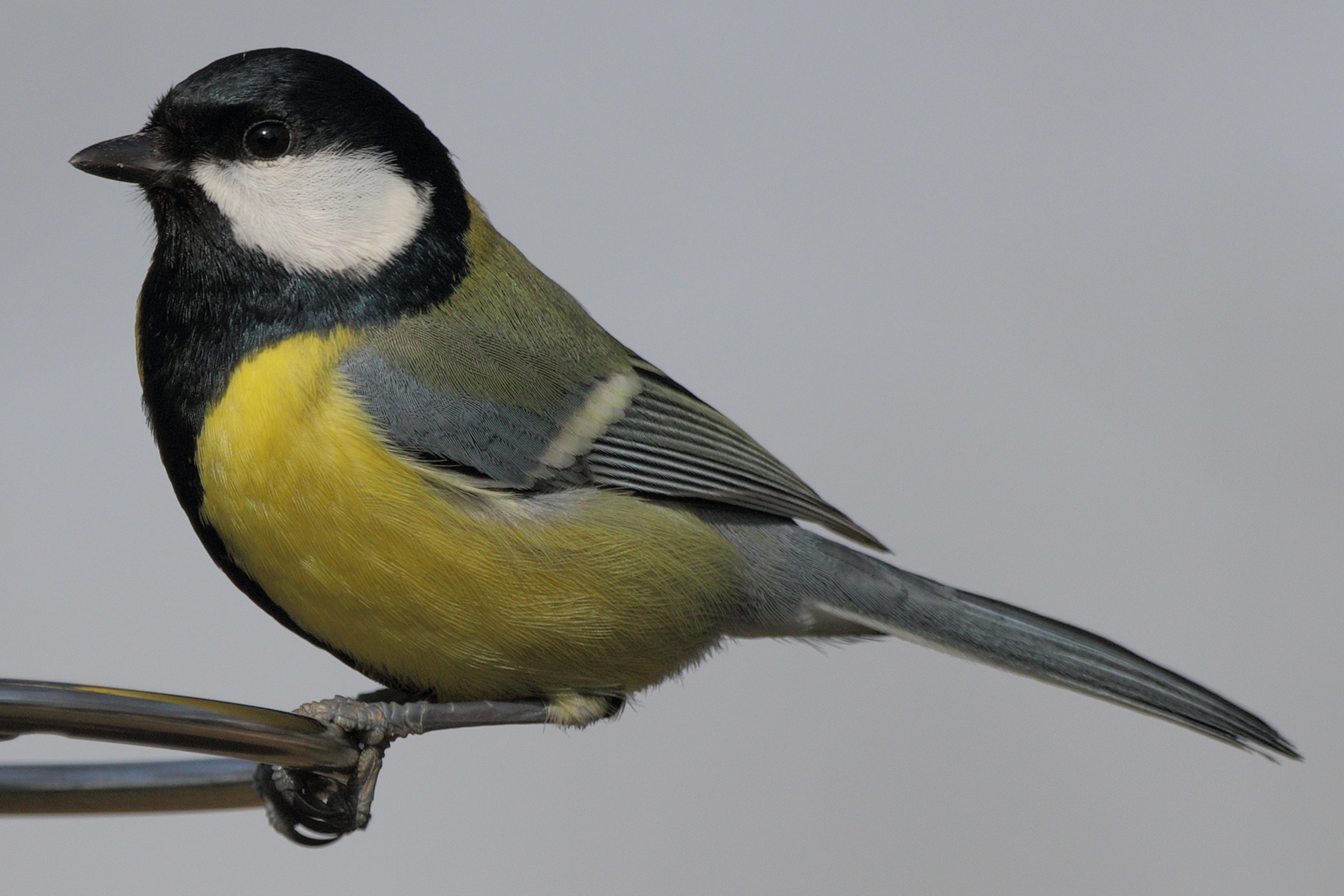 Parus major in Eppelheim, Germany.